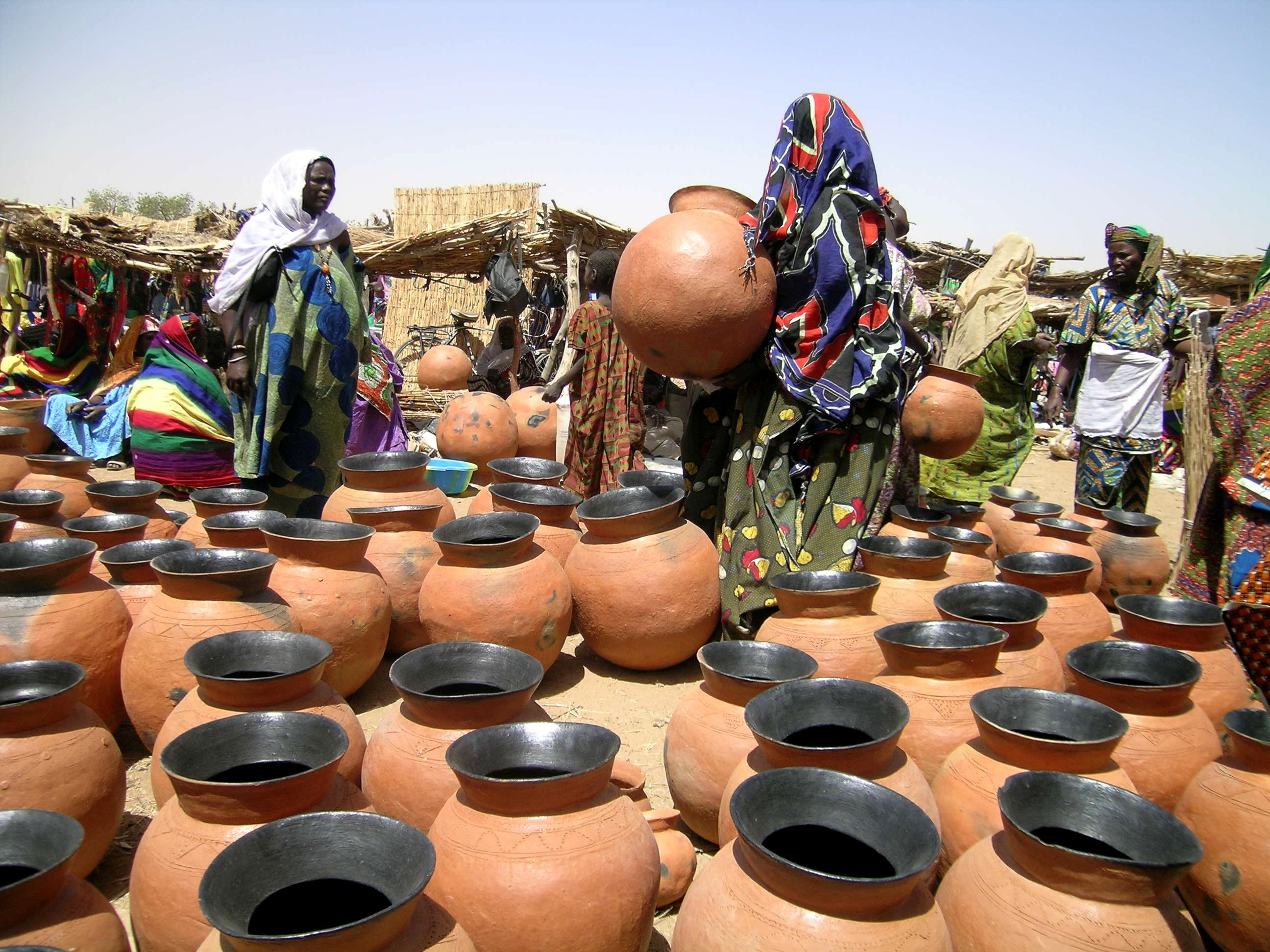 Songhai women potteries in Gorom-Gorom, Burkina Faso.